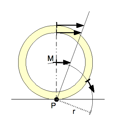 speedvariation on a wheel